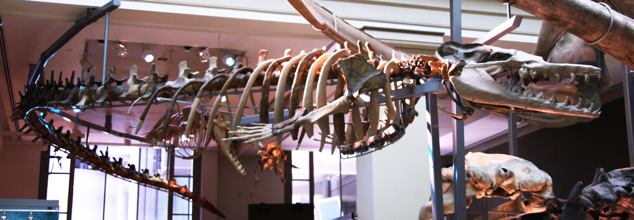 Skeleton of a basilosaurus cetoides in the Sant Hall of Oceans in the Smithsonian Museum of Natural History in Washington, D.C. It is the only genuine specimen currently exhibited anywhere in the world. In proportion to its body size, Basilosaurus cetoides had extremely small - 2 foot (0.6 m) long hind limbs which had limited mobility, and could only assume 2 positions: against the body, or belly. Scientists believe the limbs were used during sex, to help grasp the female.